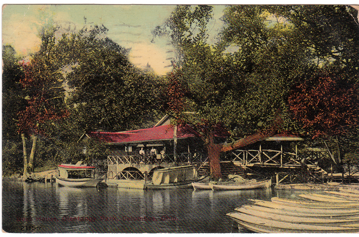 Lake House at Olentangy Park, Columbus, Ohio (1911 Postcard)